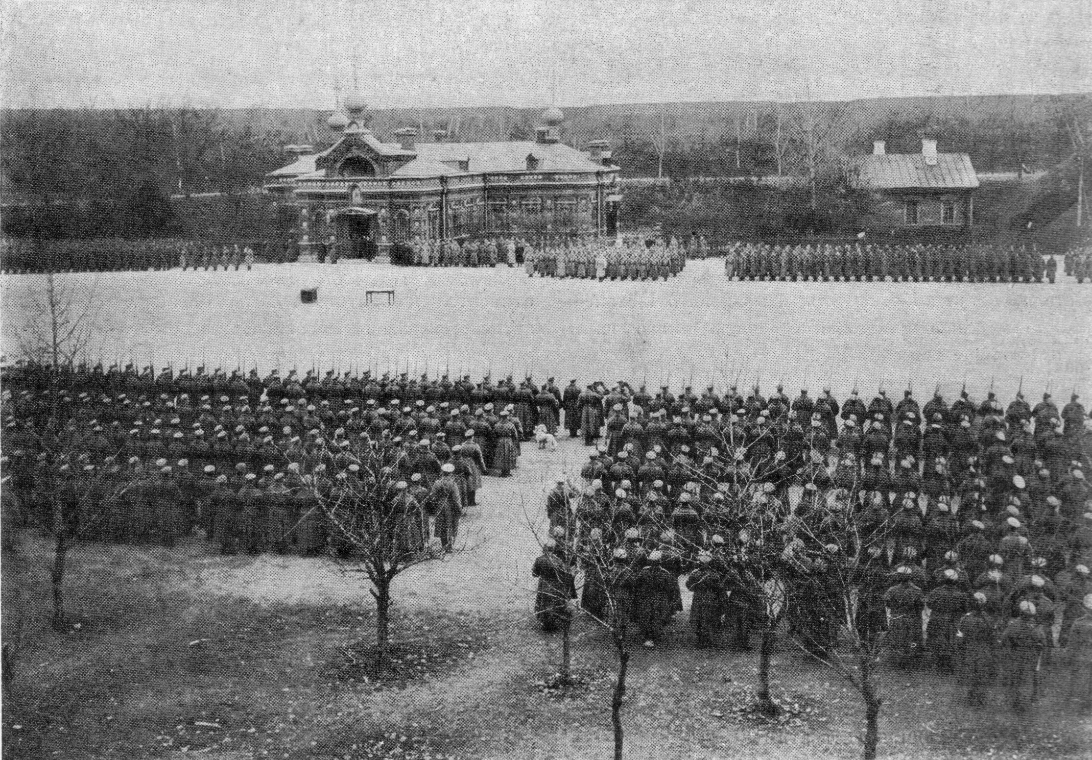 Osowiec Fortress. Fortress Church. The parade on the occasion of the distribution St. George's crosses. January 24, 1915